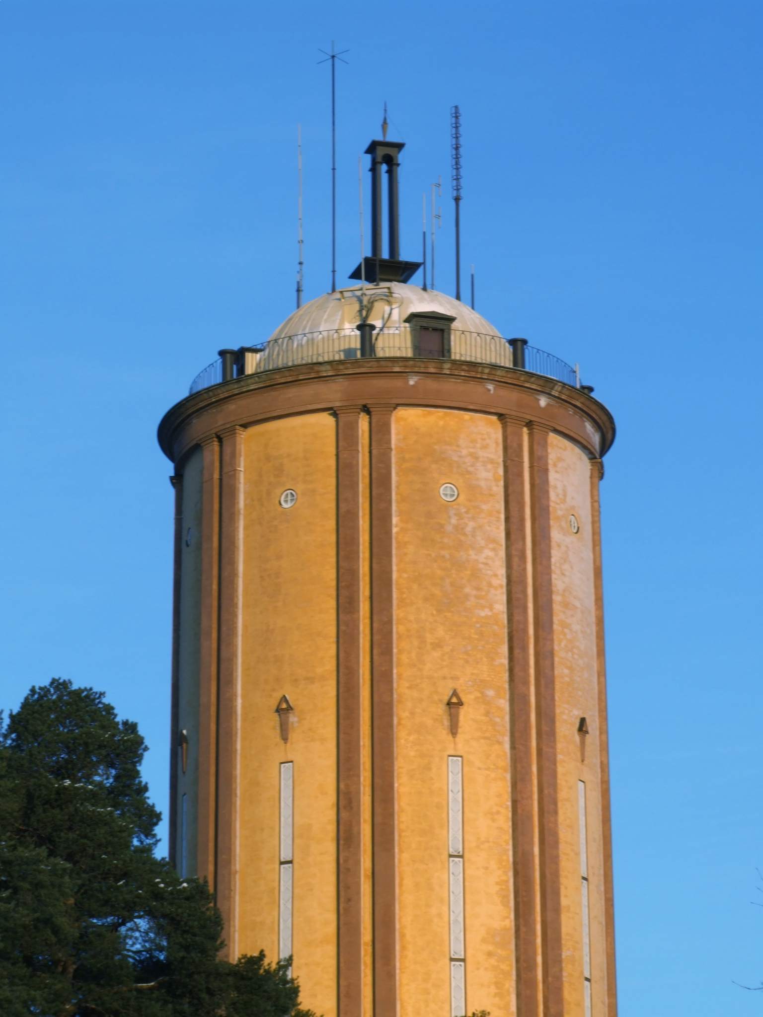 Intiö water tower was designed by J.S. Sirén and built in 1926–1927. The water tower is not in use anymore.